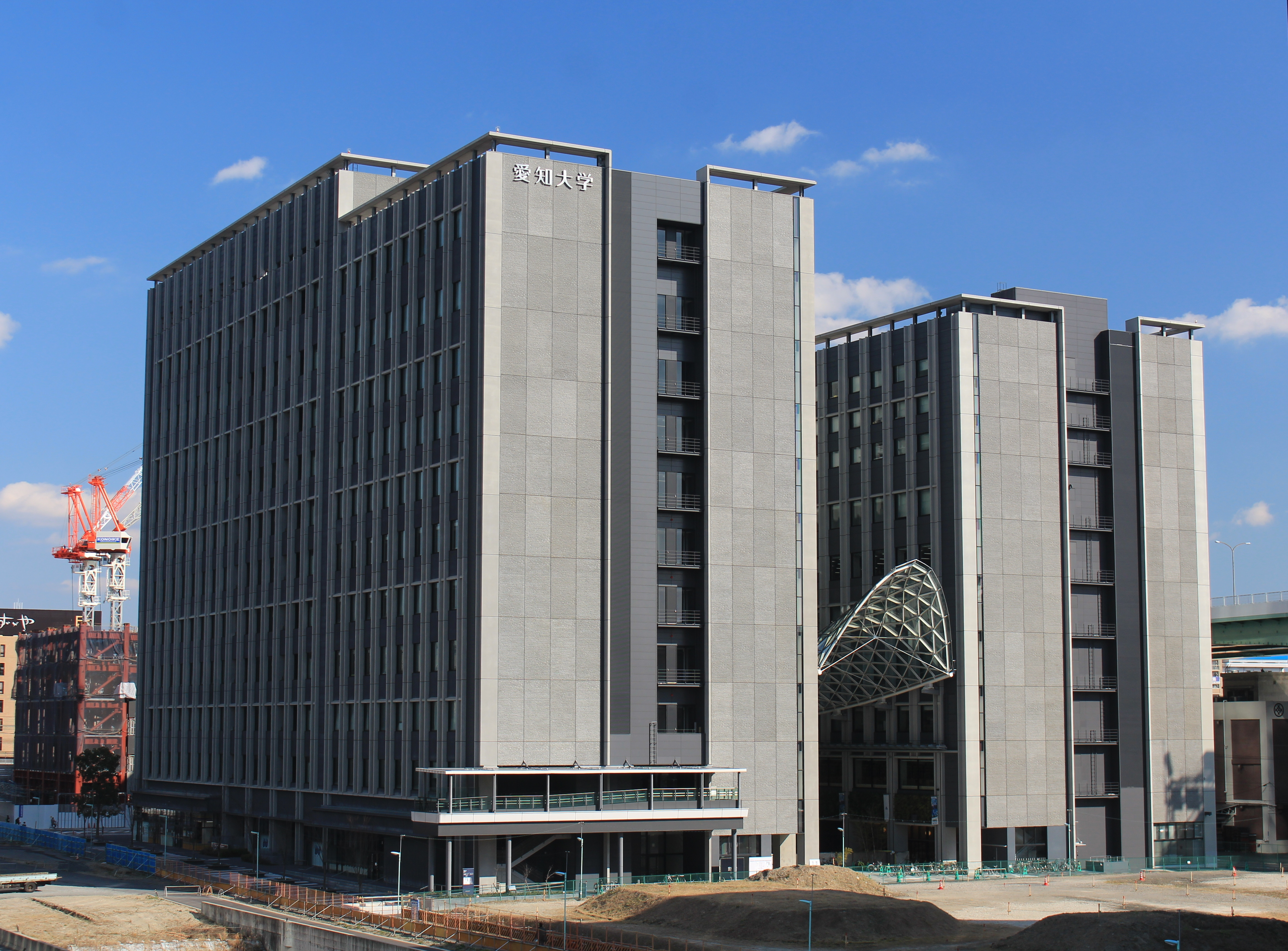 Aichi University in Sasashima-raibu24, Nakakura-ku, Nagoya, Aichi prefecture, Japan.